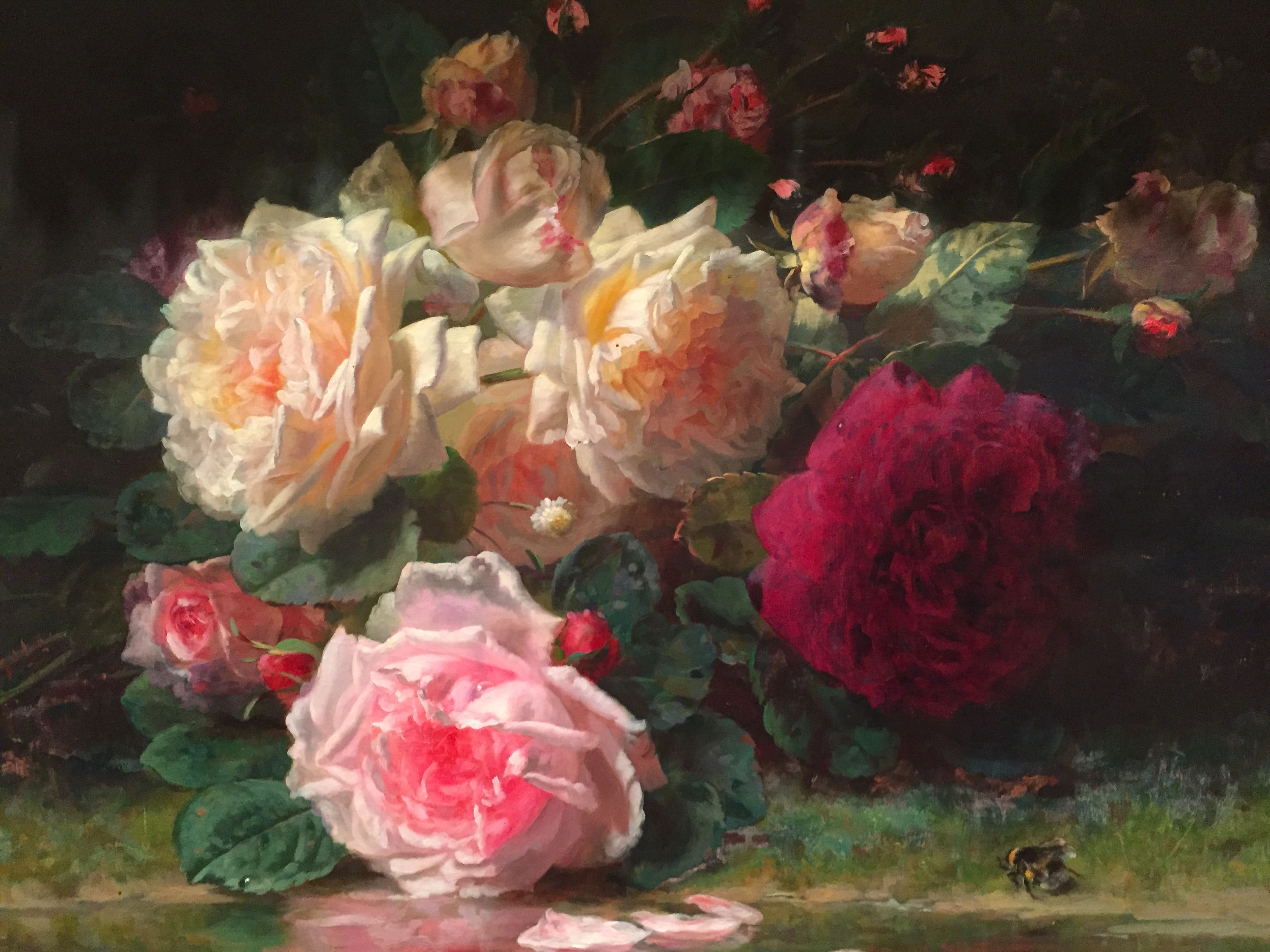 Roses by Jean Baptiste Robie. Oil on fabric. Part of the Prendergast Bequest.